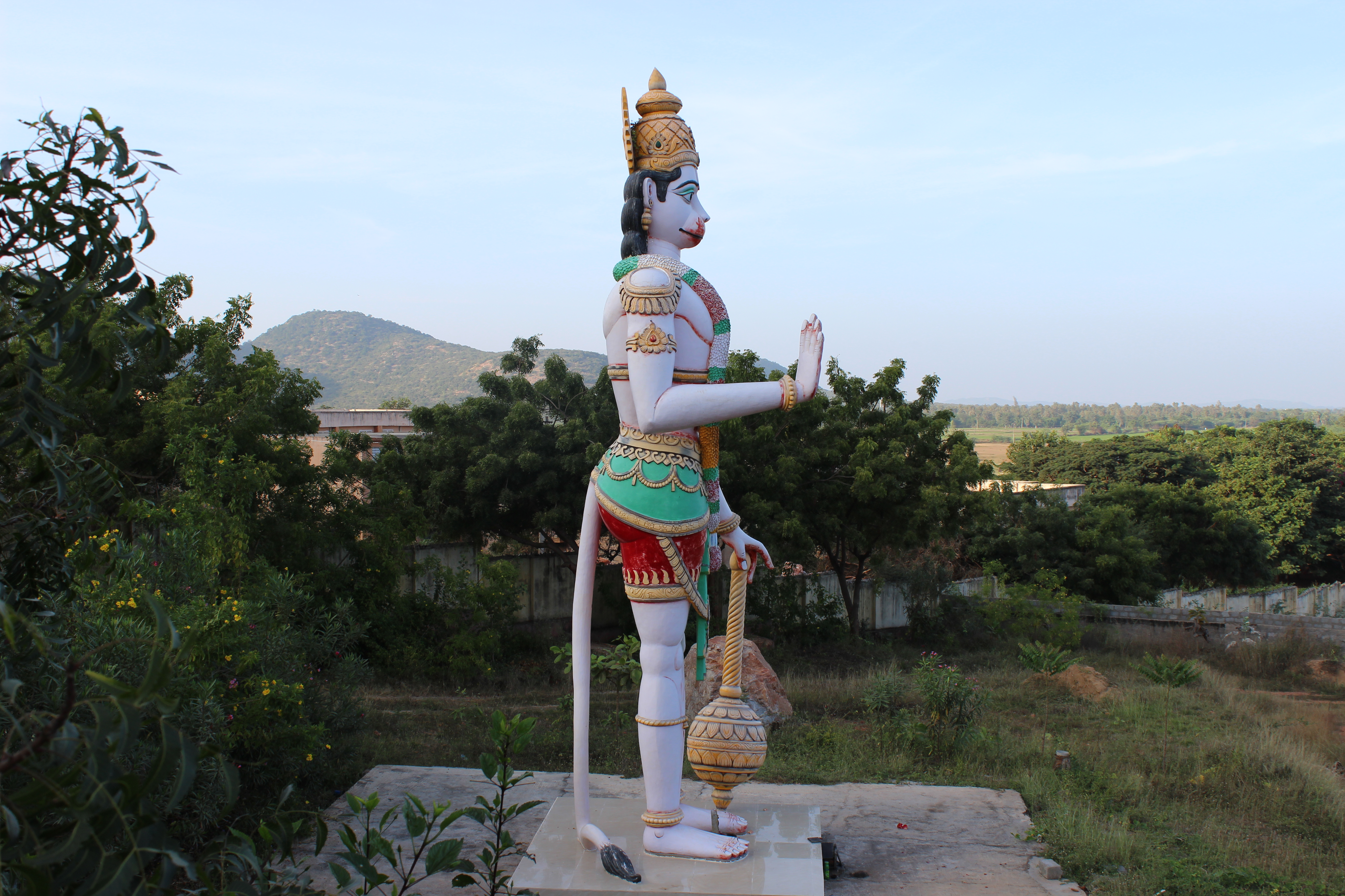 sangam temples